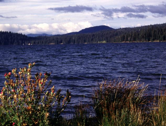 Cinnamon Butte (right center) rises above the shore of Diamond Lake, a popular recreation area north of Crater Lake.